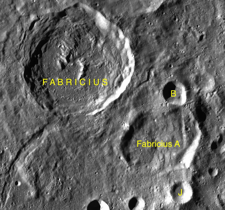 Part of the chart LAC-114 used for the presentation